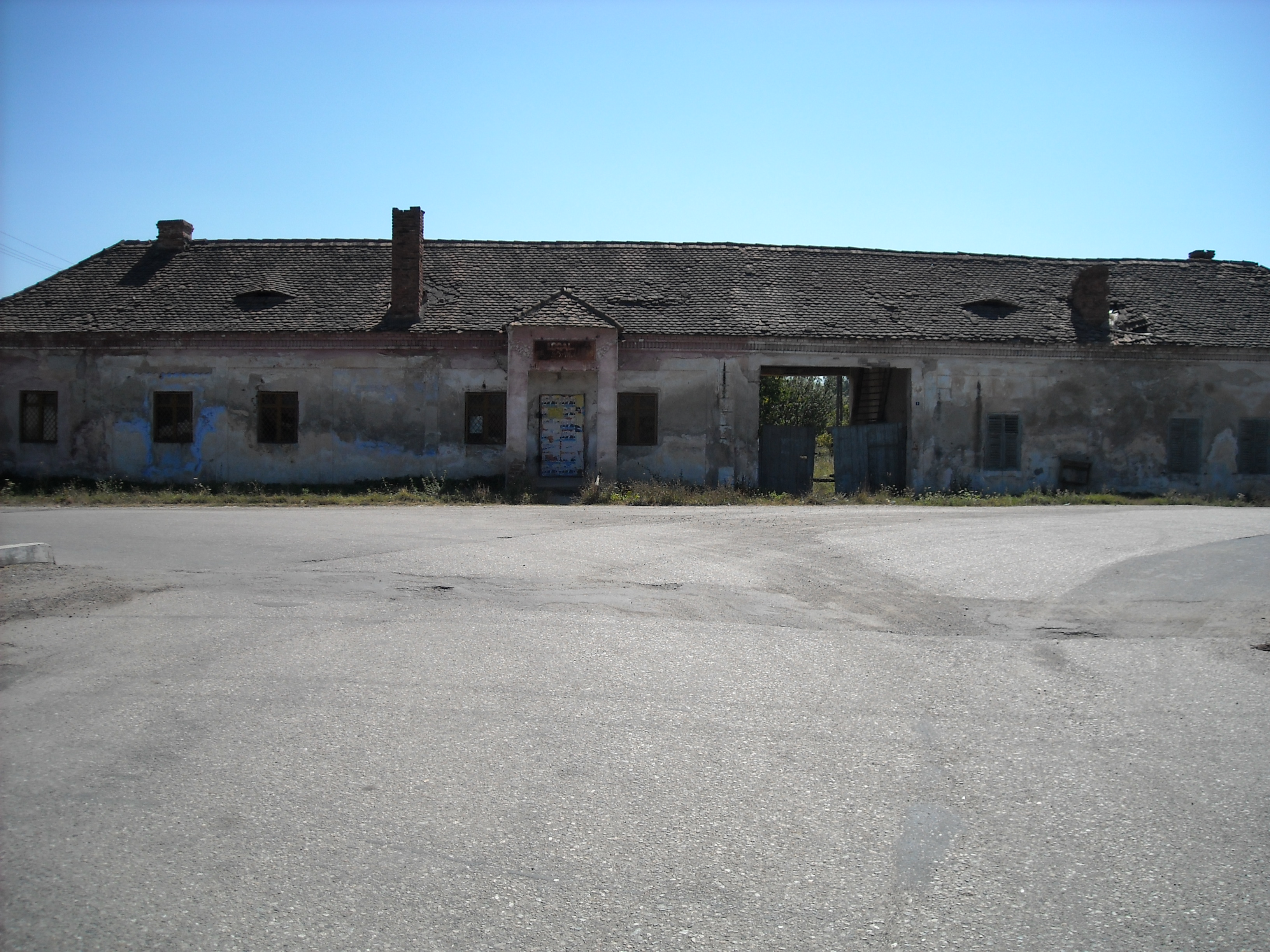 The former inn in Simeria Veche (Ópiski) village, Hunedoara County, Romania. Headquarters of general Józef Bem in February 1849